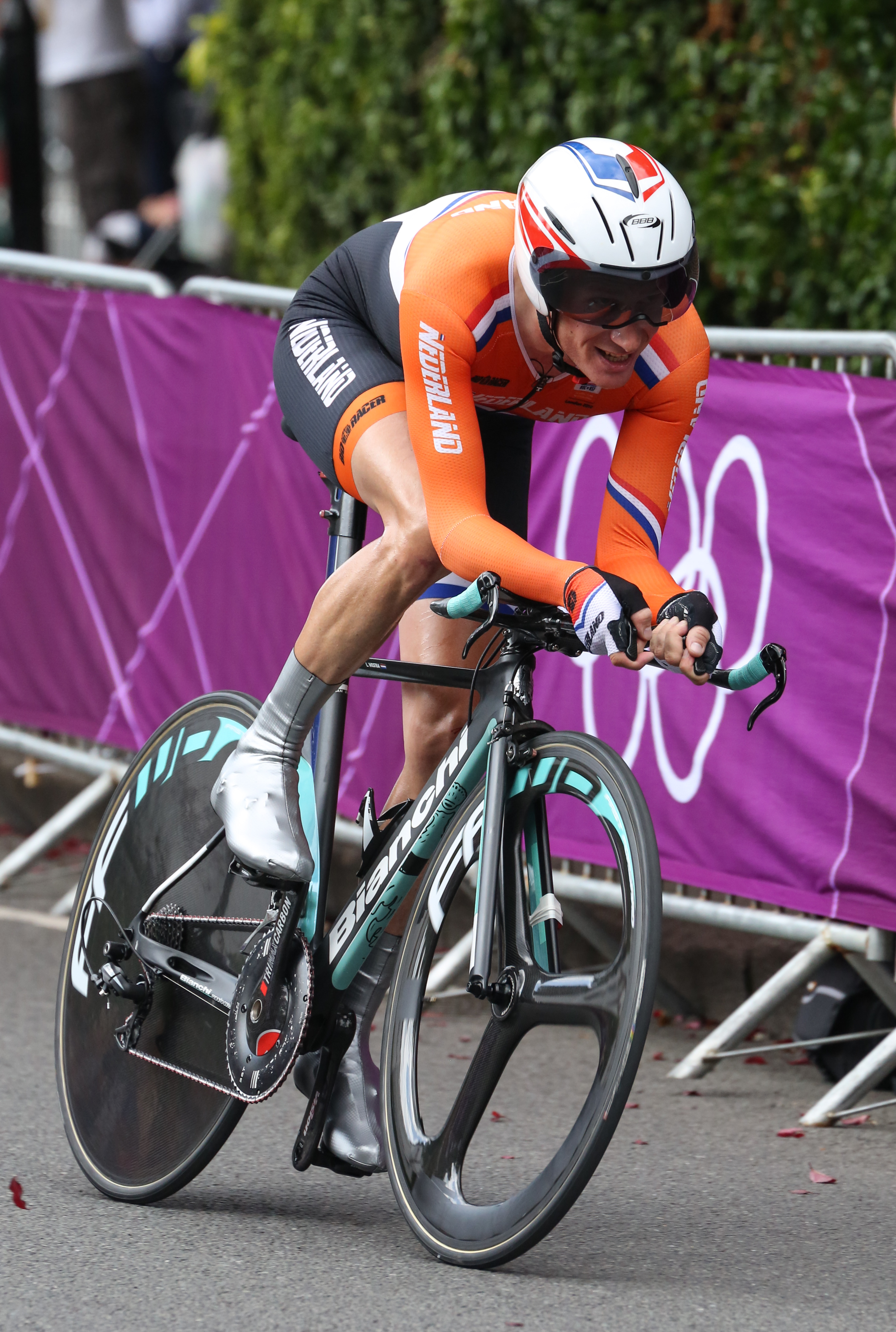 Lieuwe Westra competing in the London 2012 Men's Olympic Time Trial.